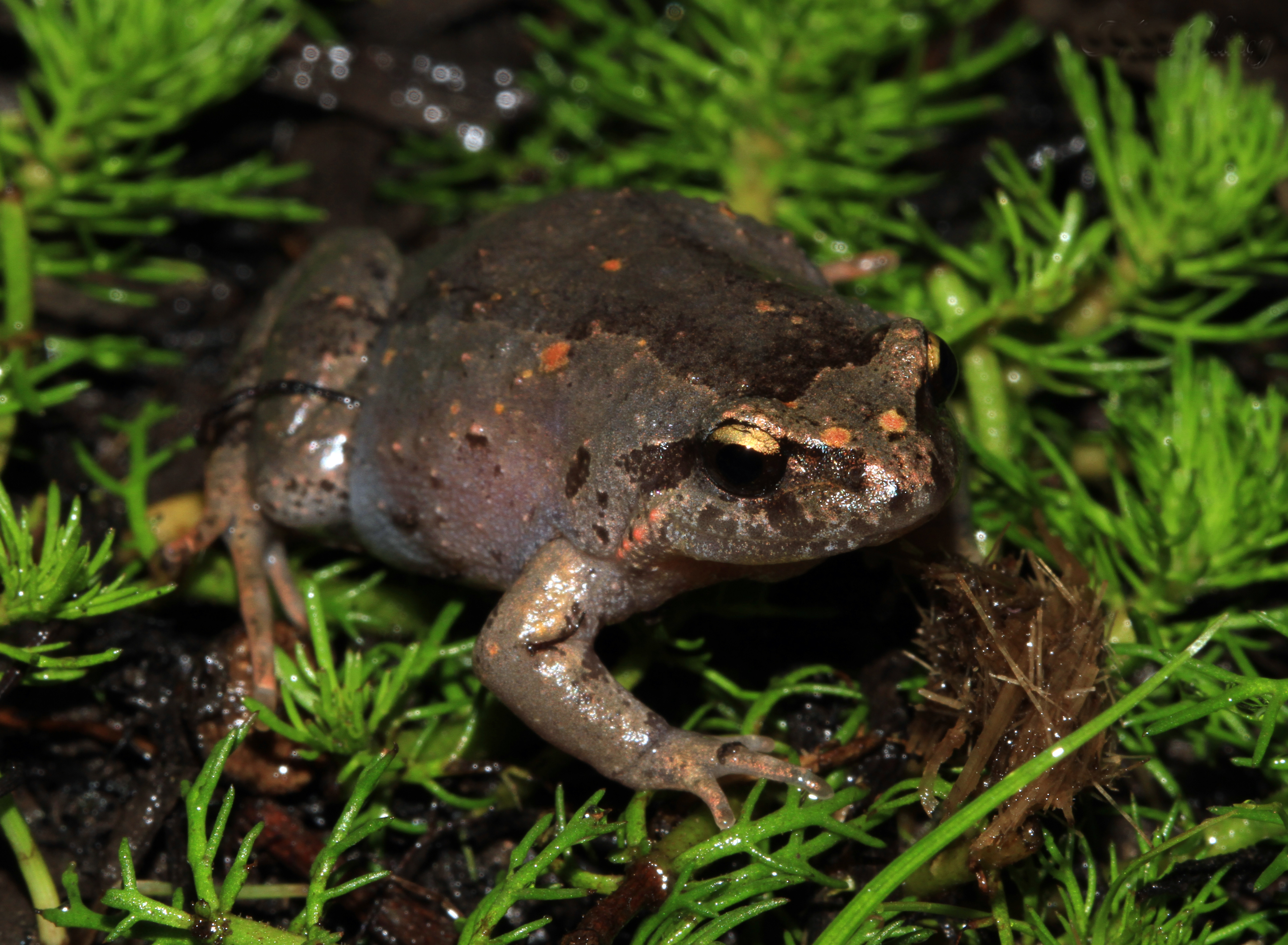 Grampians National Park, Victoria.